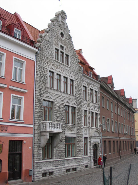 Harju tänav 9, arhitekt Jacques Rosenbaum